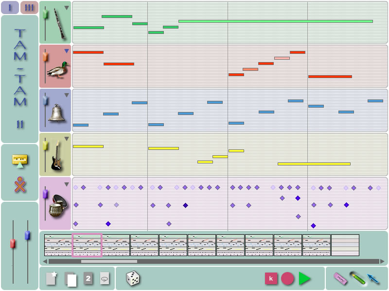 OLPC - applications - screenshot of upcoming TAMTAM - user interface